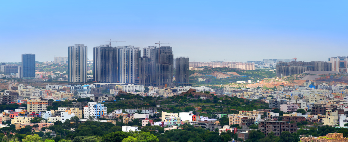 This is a picture taken in Hyderabad India in Sept 2012 and edited for better contrast